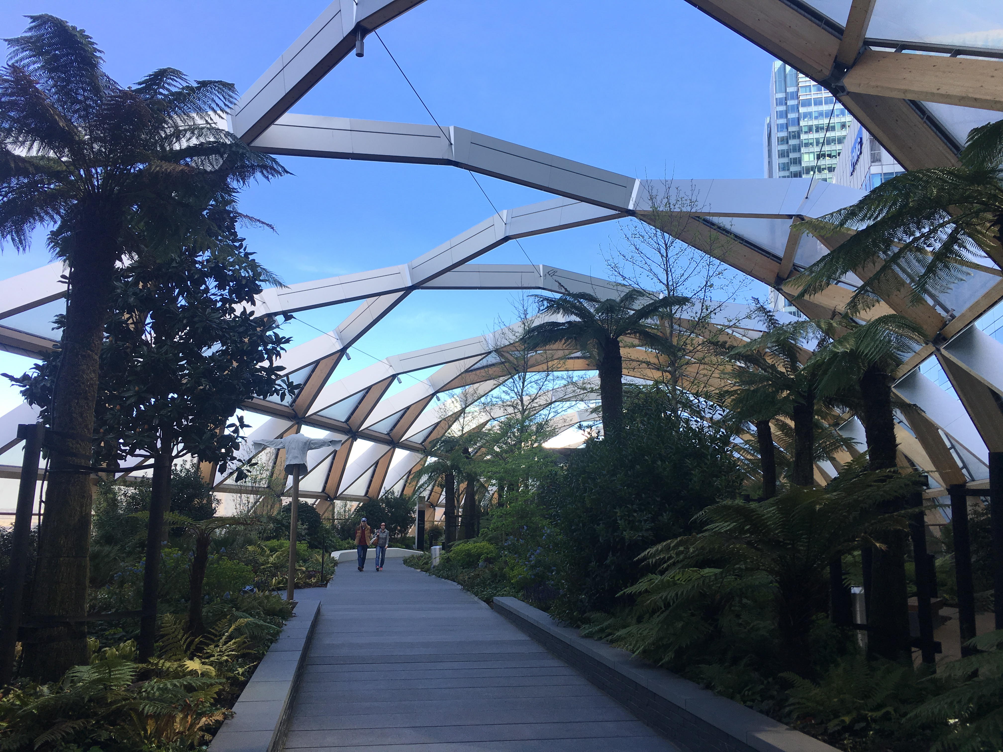 This was taken by at Canary Wharf Roof Garden Crossrail Place by Jason Williams